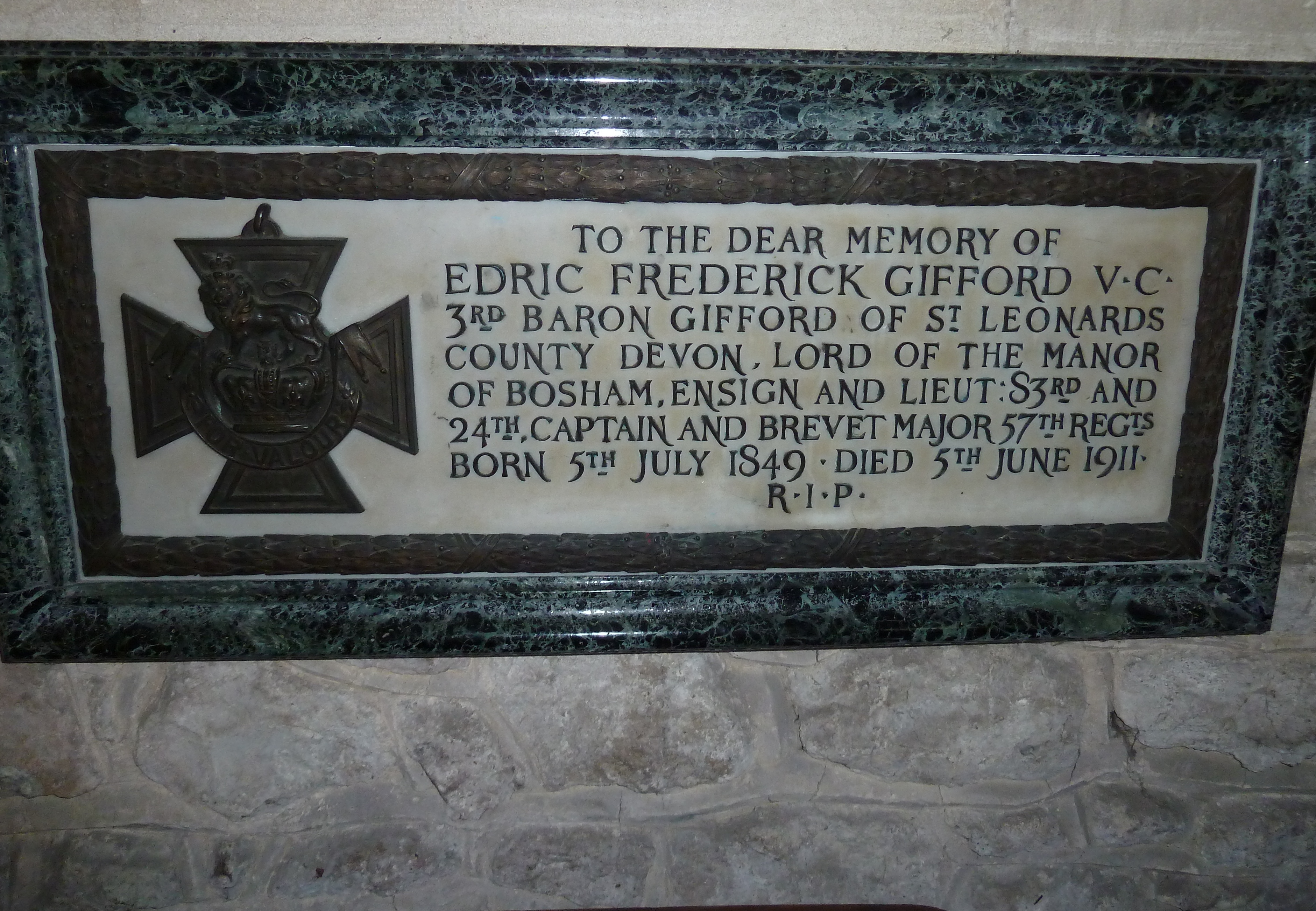 Taken at Bosham Church